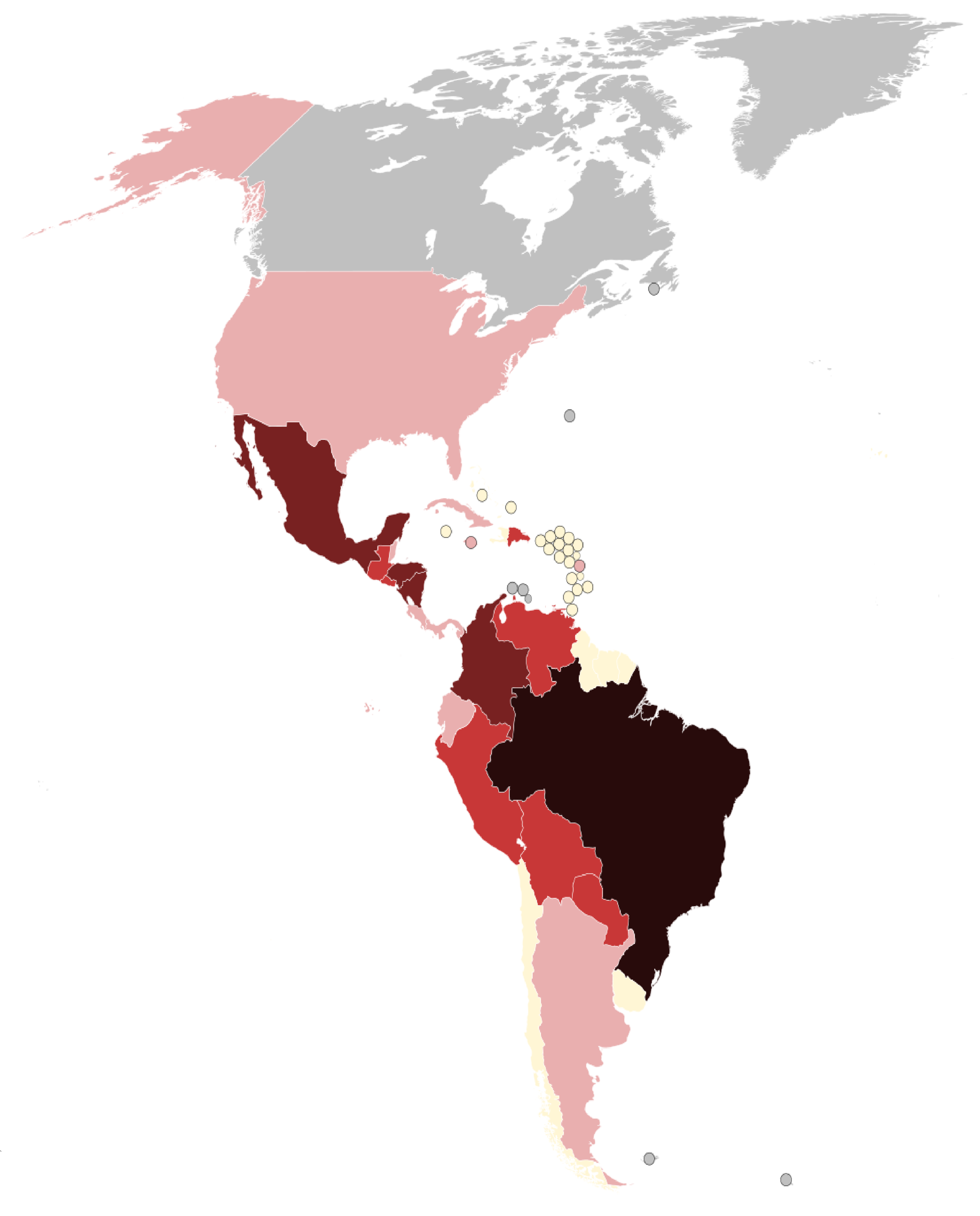 2019-2020 dengue fever epidemic 1,000,000+ Confirmed cases 100,000–999,999 Confirmed cases 10,000–99,999 Confirmed cases 1000–9999 Confirmed cases 1–999 Confirmed cases No cases or not data Argentina Belize Bolivia Brazil Chile Colombia Costa Rica Cuba Dominican Republic Ecuador El Salvador Guatemala Guyana Haiti Honduras Nicaragua Paraguay Peru Suriname Uruguay Venezuela